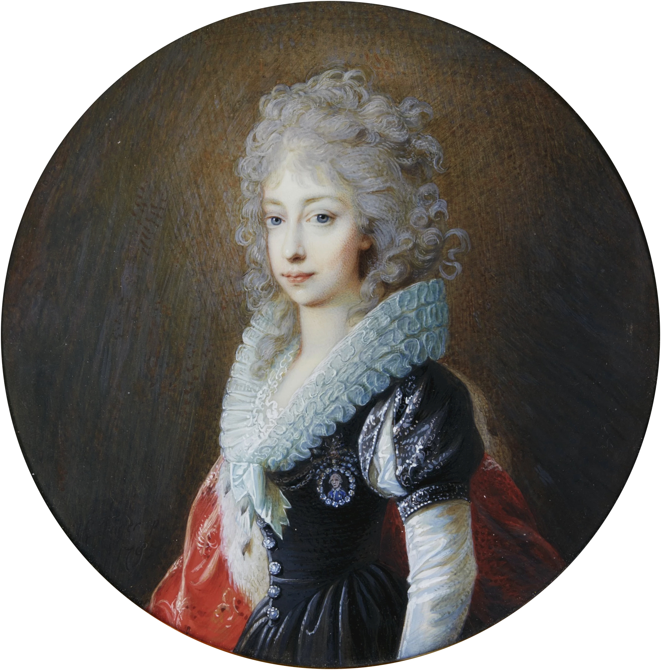 Portrait of Archduchess Maria Clementina of Austria (1777-1801), later Crown Princess of Naples.